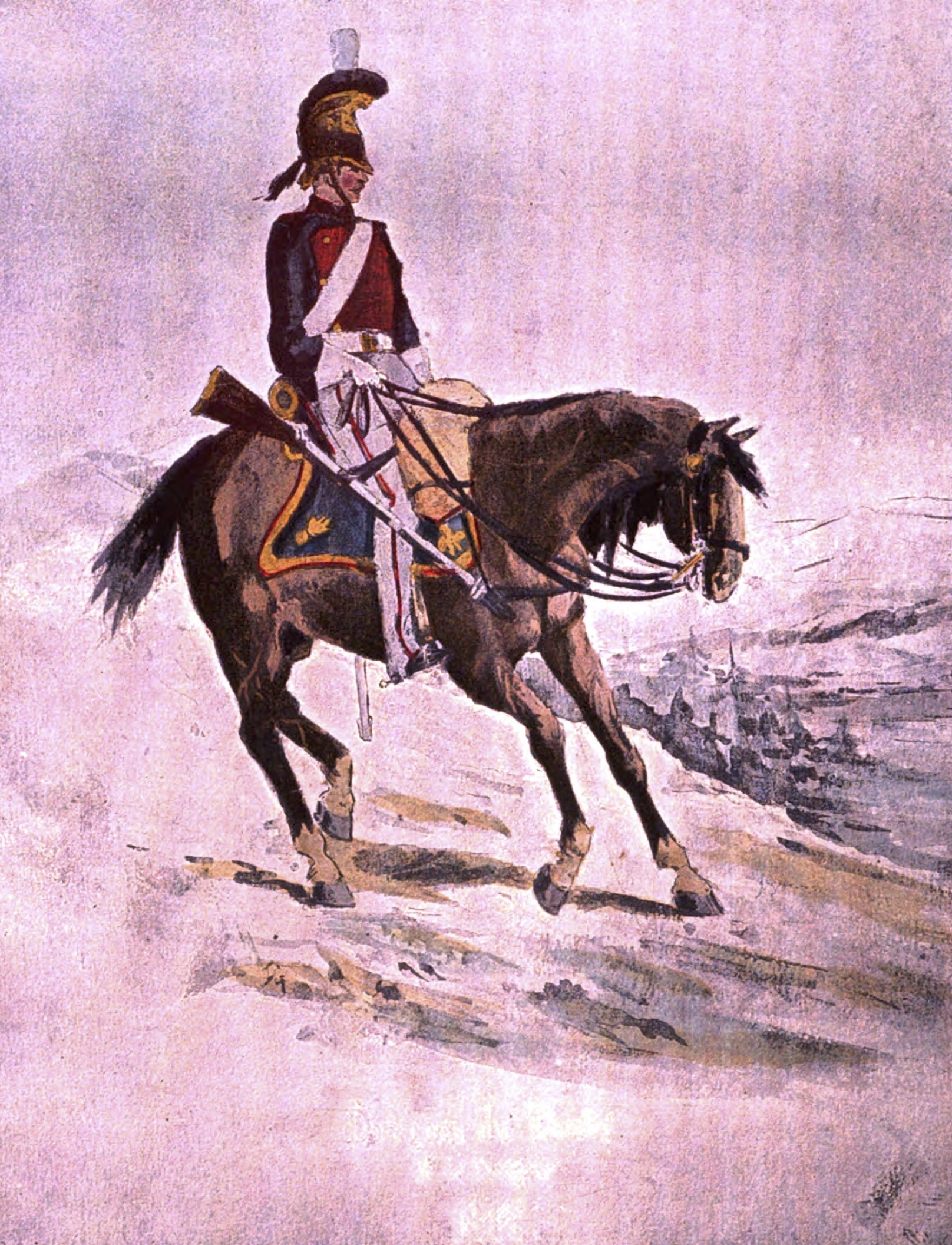 A dragoon of the (2e) Régiment de Dragons du Doubs in 1816